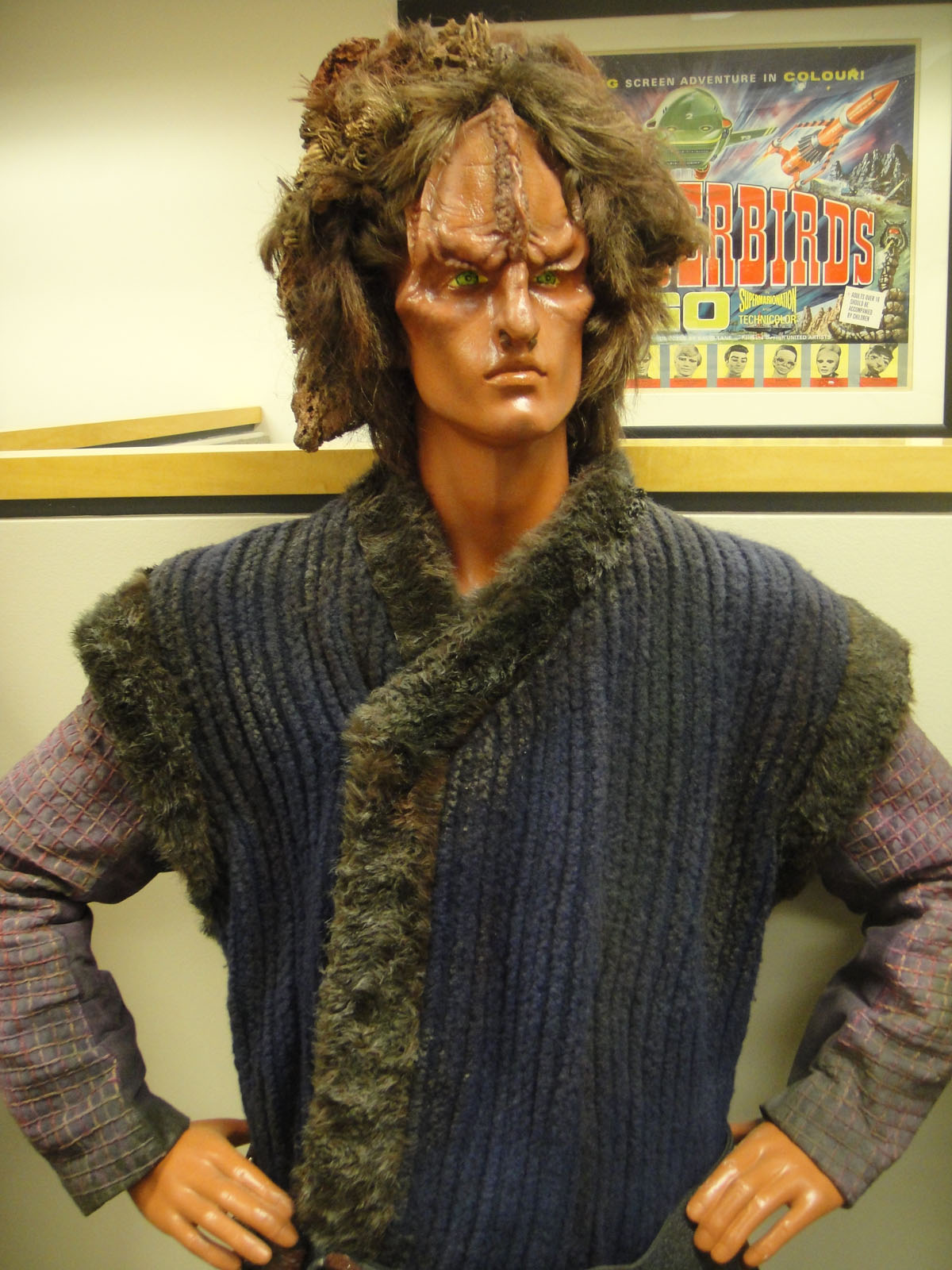 photo 2012 taken by Doug Kline If you're interested in higher resolution versions of my images, contact me via my profile page.